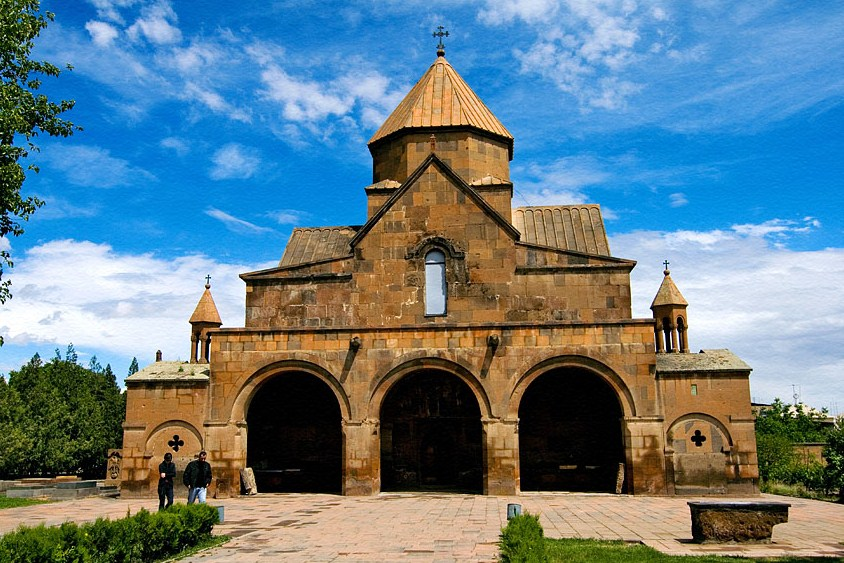 St. Gayane Church, Armenia.